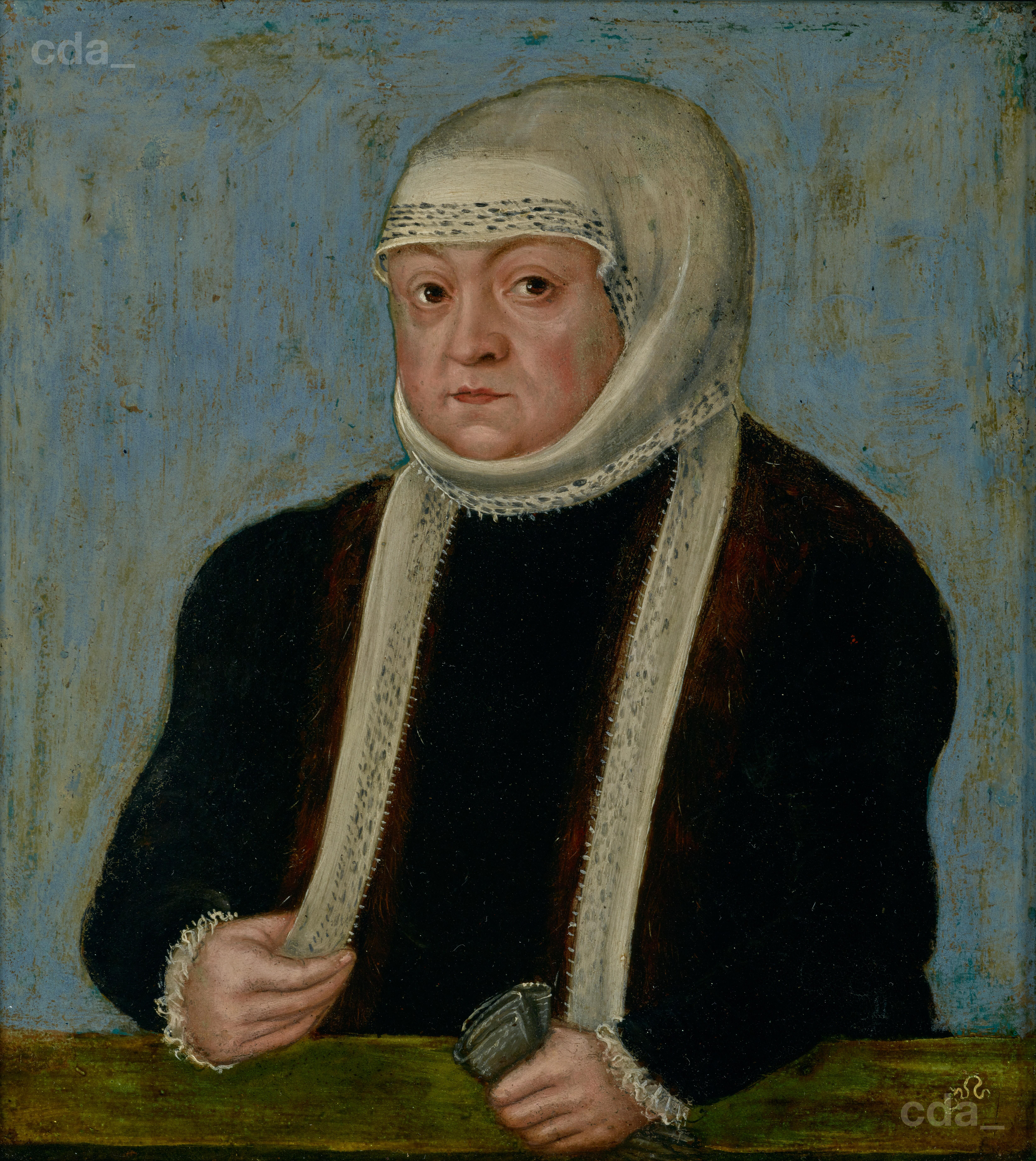 Portrait of Bona Sforza (1494-1557), the wife of Sigismund I and Queen Consort of Poland